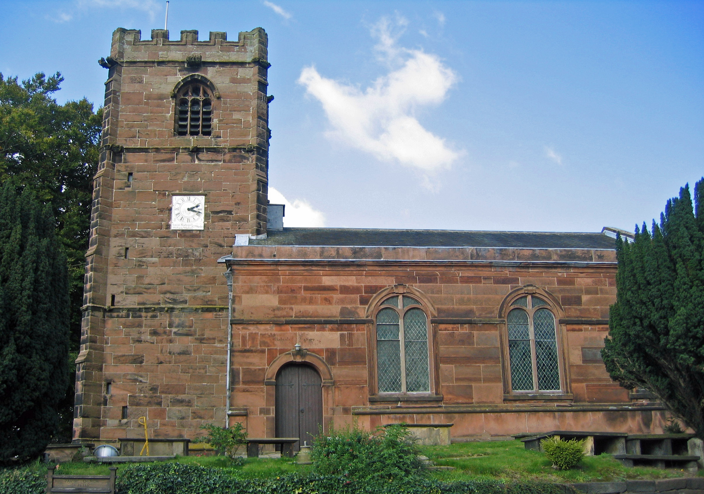 Photograph of southern aspect